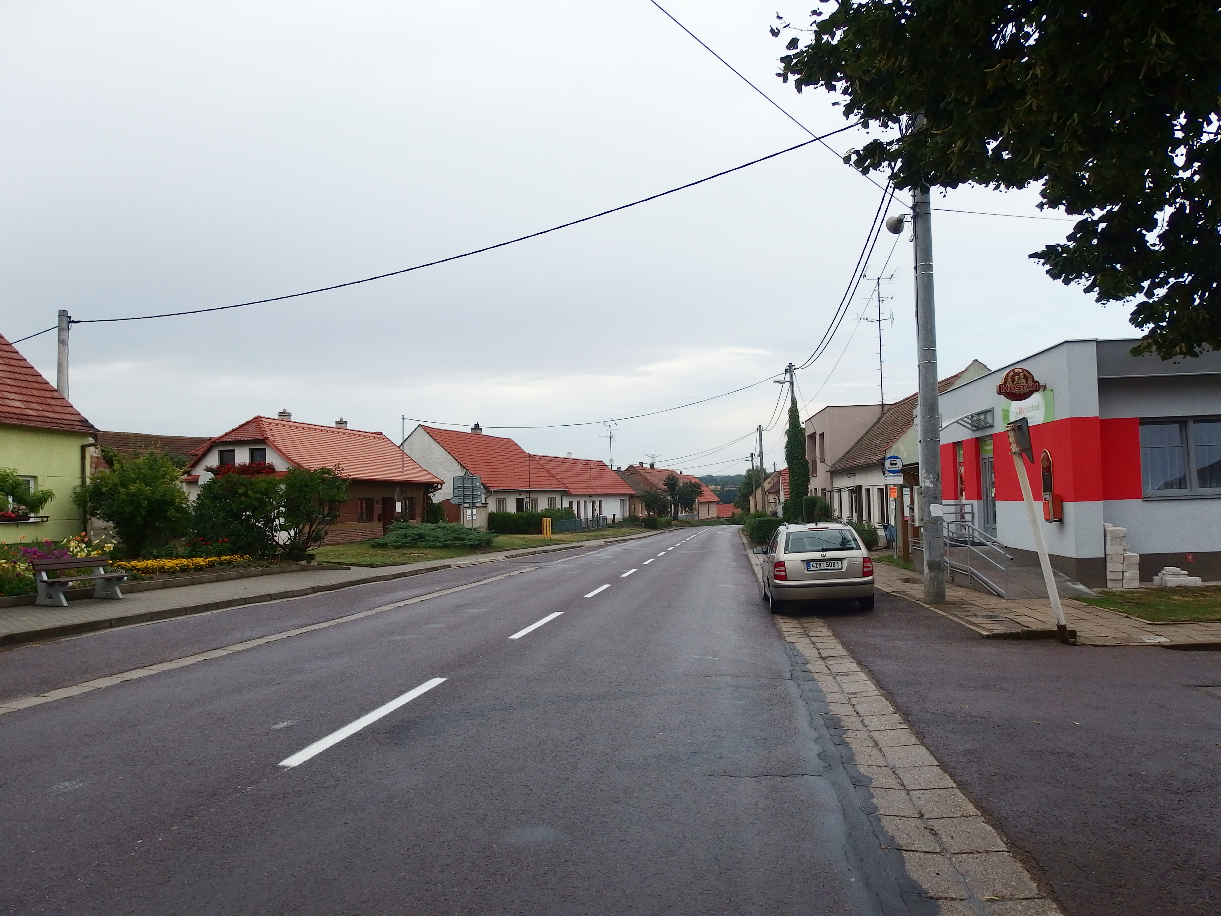 Dobelice, Znojmo District, Czech Republic.